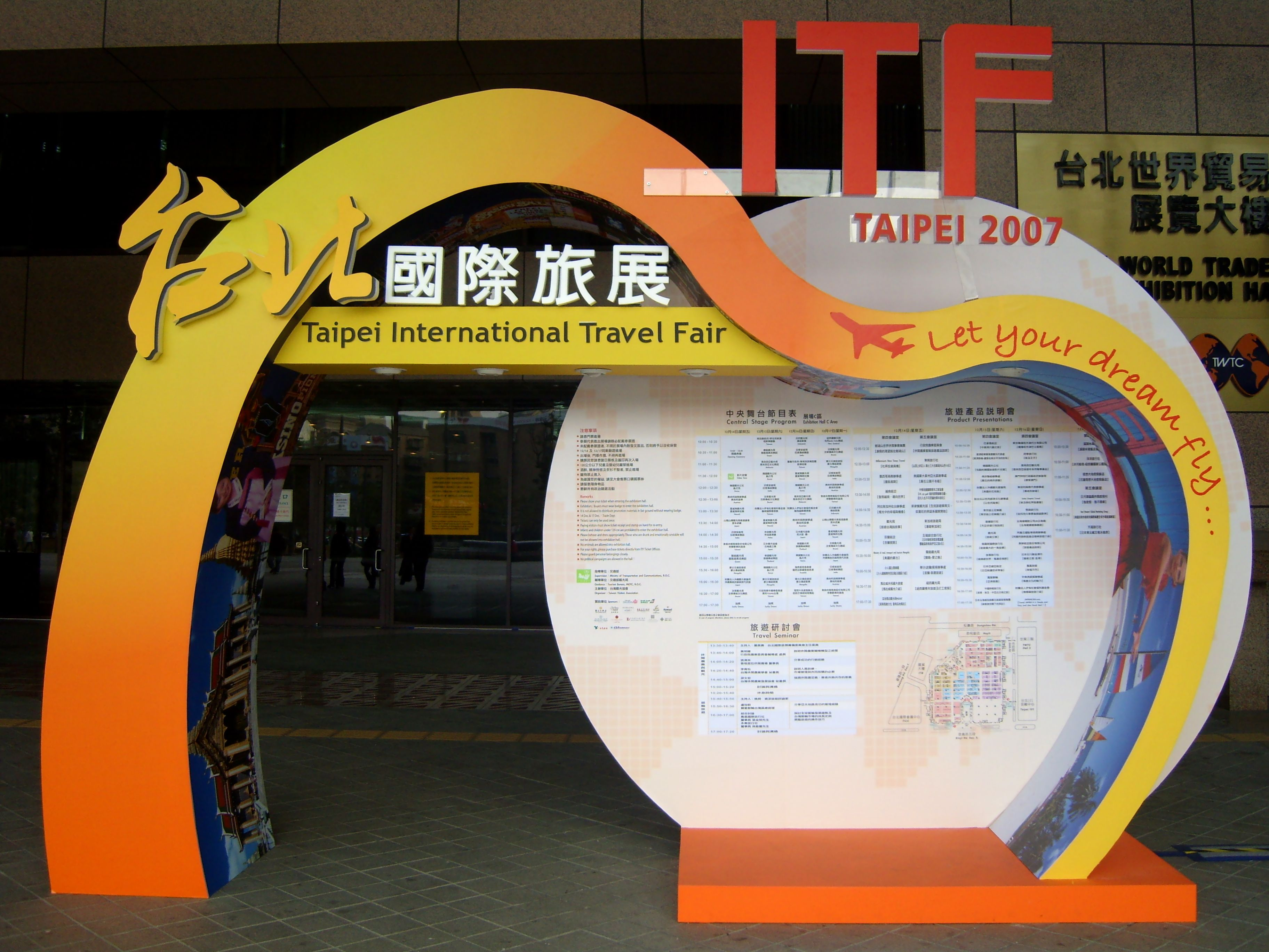 2007 Taipei International Travel Fair: The Mental Bastion.